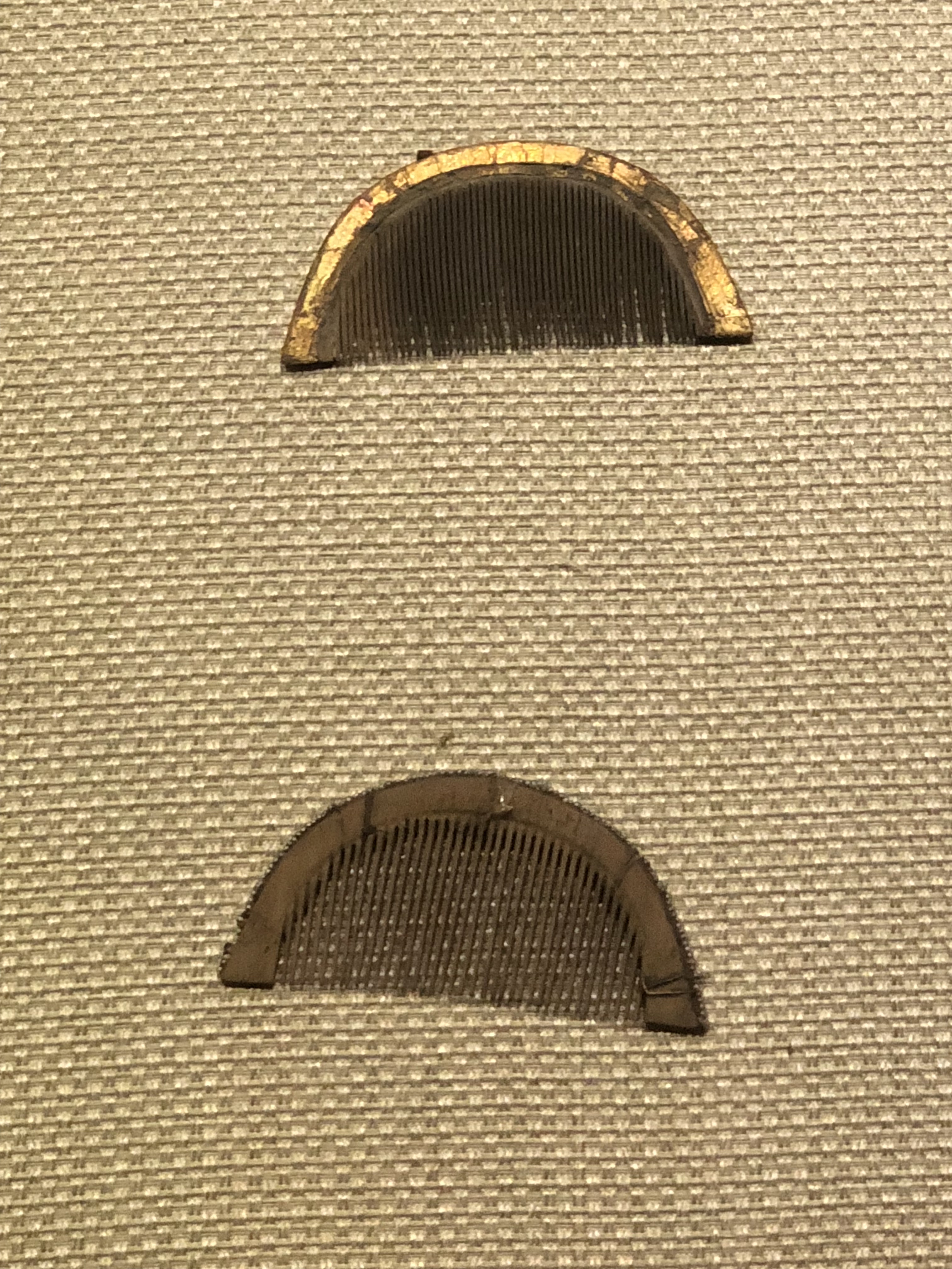 Goldplated Halfmoon Wooden Comb; Peal Halfmoon Wooden Comb 南宋 1976年武进村前公社蒋塘宋墓出土